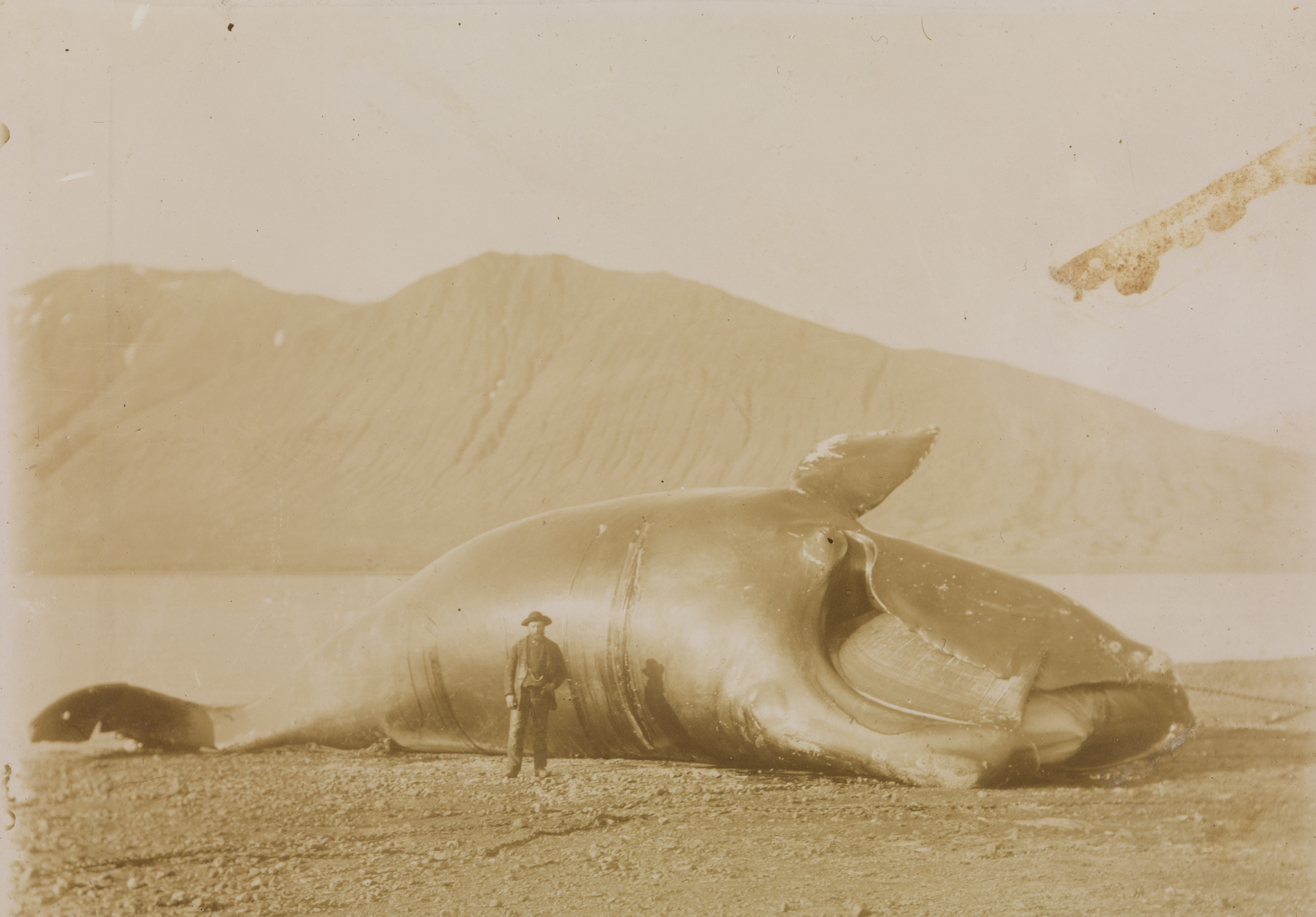 Whale hunting catch (nordkaper ) on the shore. From a marine research cruise to the Norwegian Sea, Iceland and Jan Mayen.